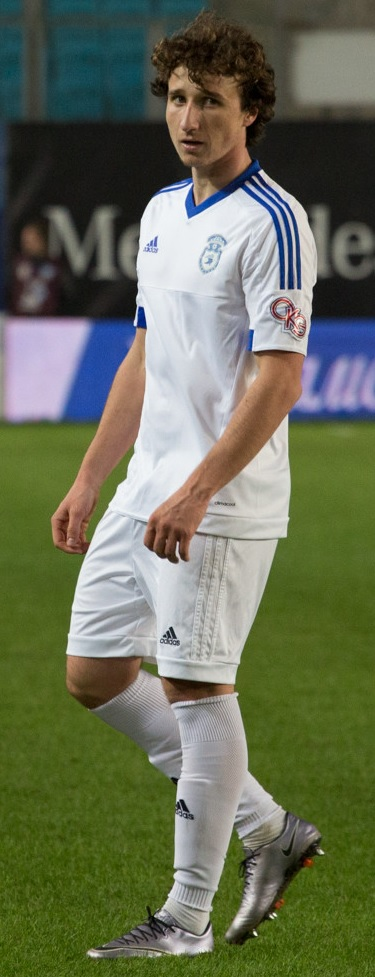 Aleksei Khrushchyov with FC Sokol Saratov in a game against FC Dynamo Moscow.